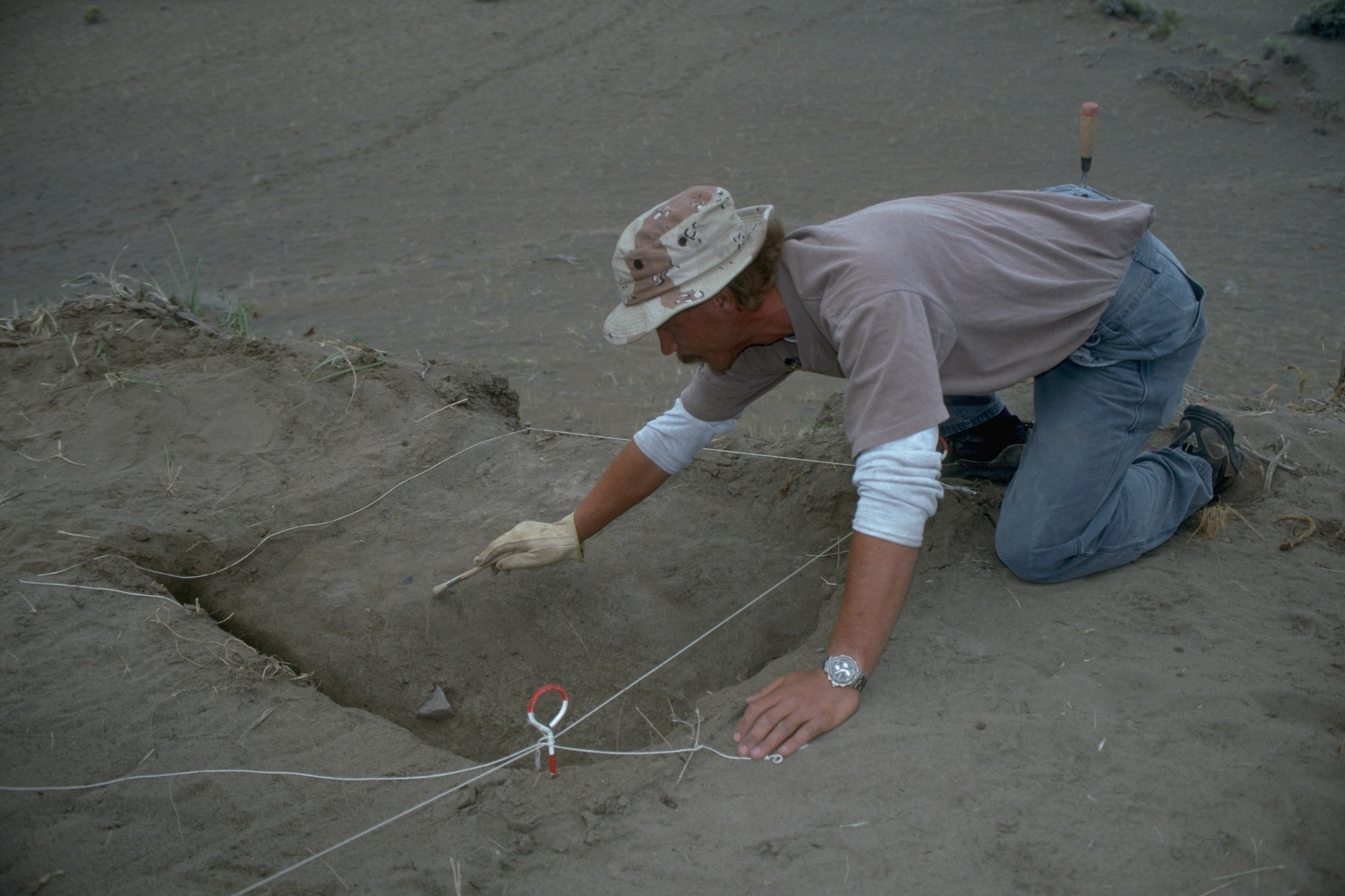 Archaeological excavation at the Skull Creek dunes site in Catlow Valley, Harney County, Oregon.